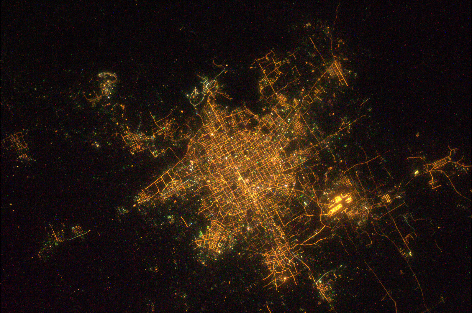 Beijing, China, from space at night, from ISS.